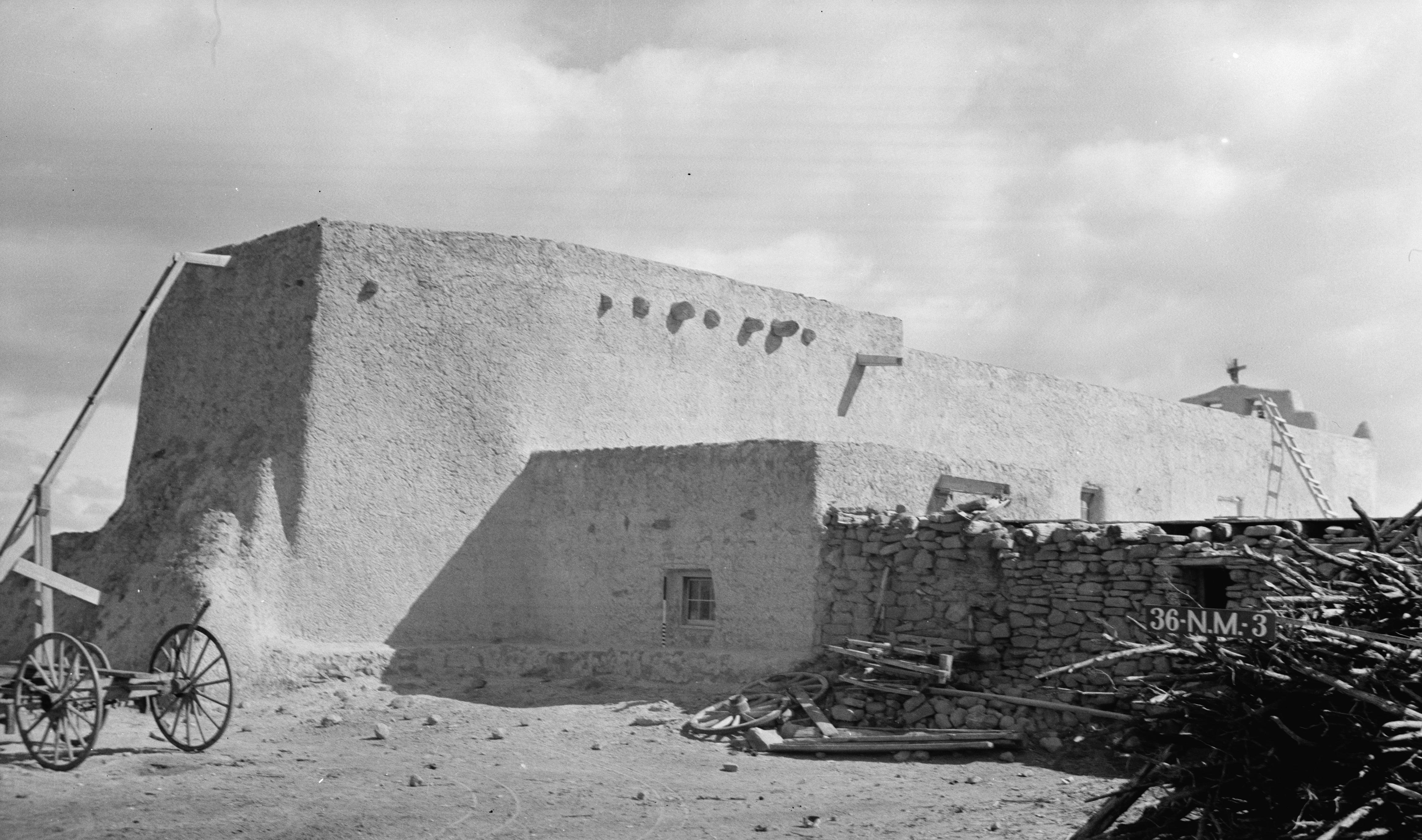 Adobe walls of the San Jose de la Laguna Mission and Convento, located in Laguna, New Mexico, United States. Built in 1699, it is listed on the National Register of Historic Places.